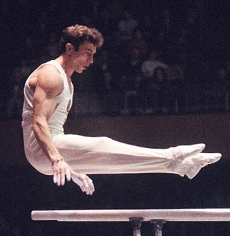 Viktor Lisitsky at the 1964 Olympics